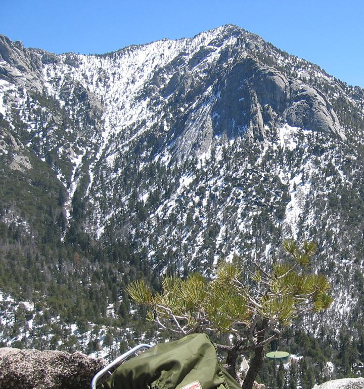 Own photo.